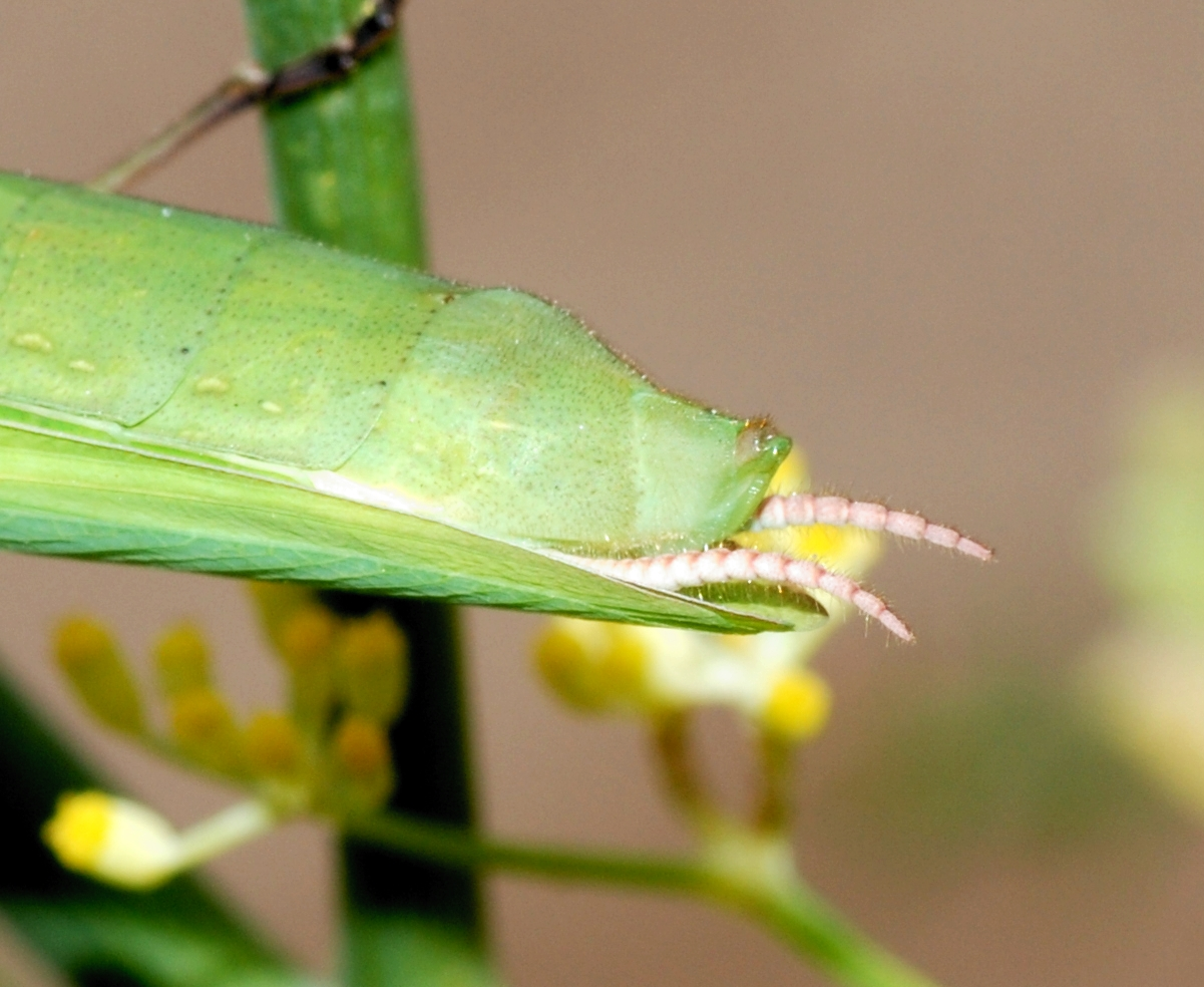 Cercis of a Mantis religiosa